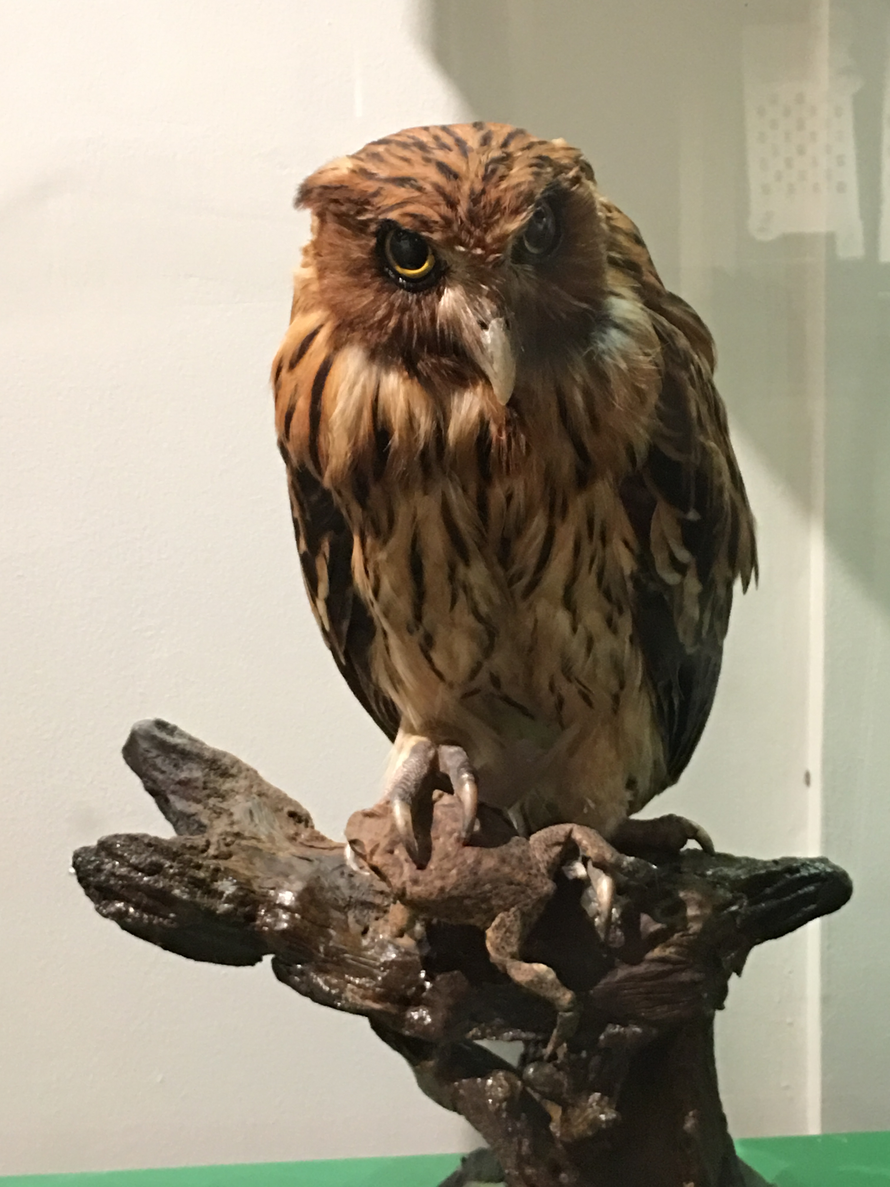 Preserved Philippine Eagle Owl at Philippine National Museum